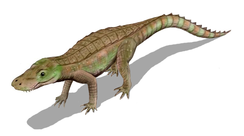 Anatosuchus minor, a crocodylomorph from the Early Cretaceous of Niger, after Sereno (2003), pencil drawing